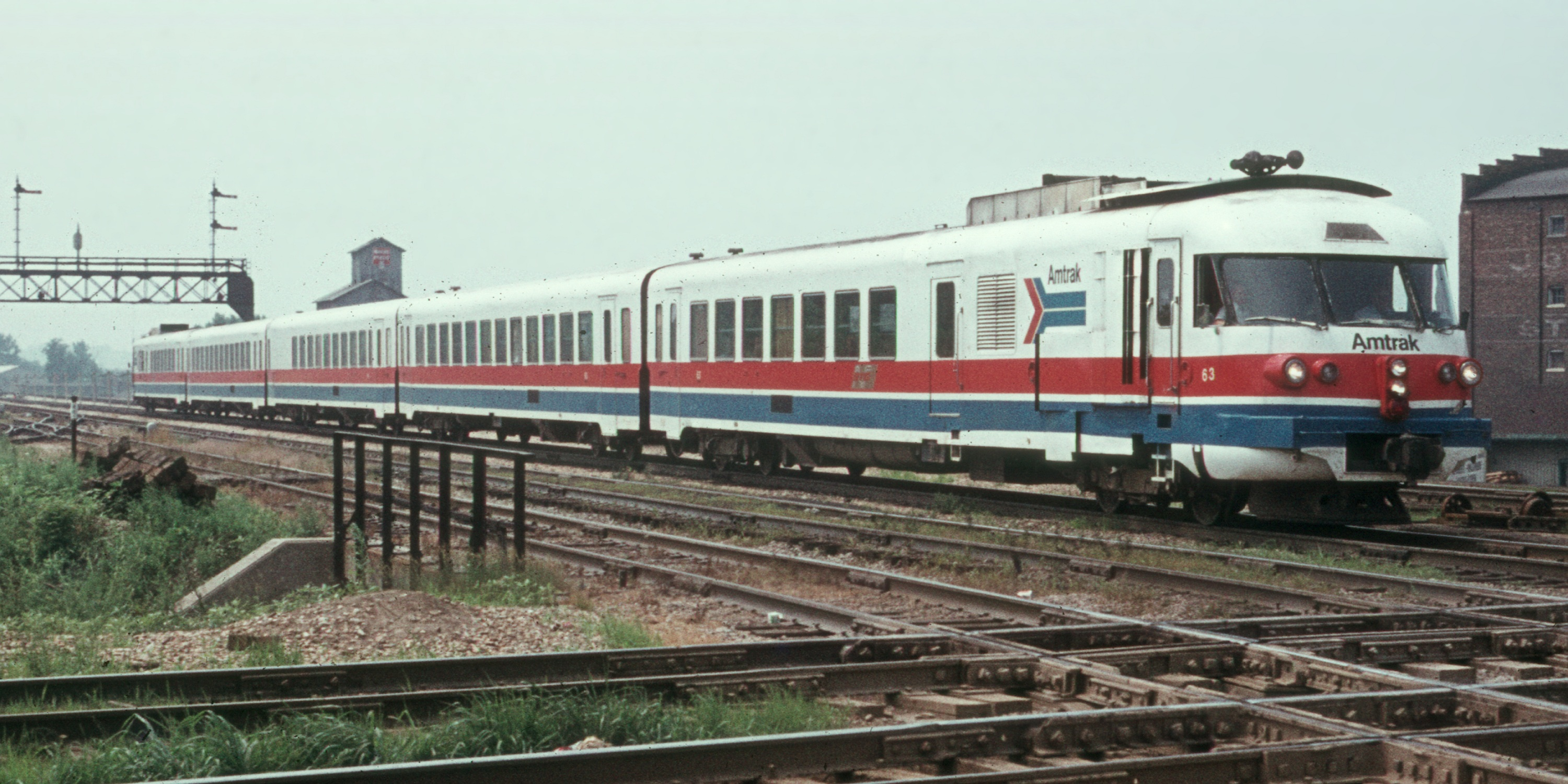 Northbound St. Louis-Chicago Turboliner #302, run by RTG Turboliner set #62/63, arriving at Joliet Union Station in July 1975